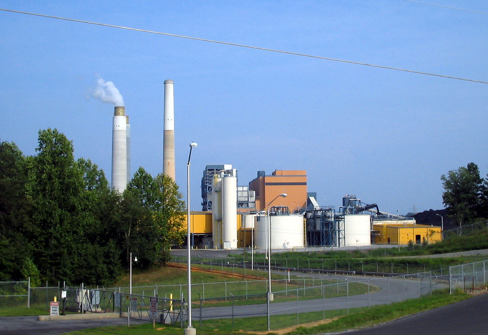 Belews Creek Steam Station, near Belews Lake, northwest of Greensboro, NC